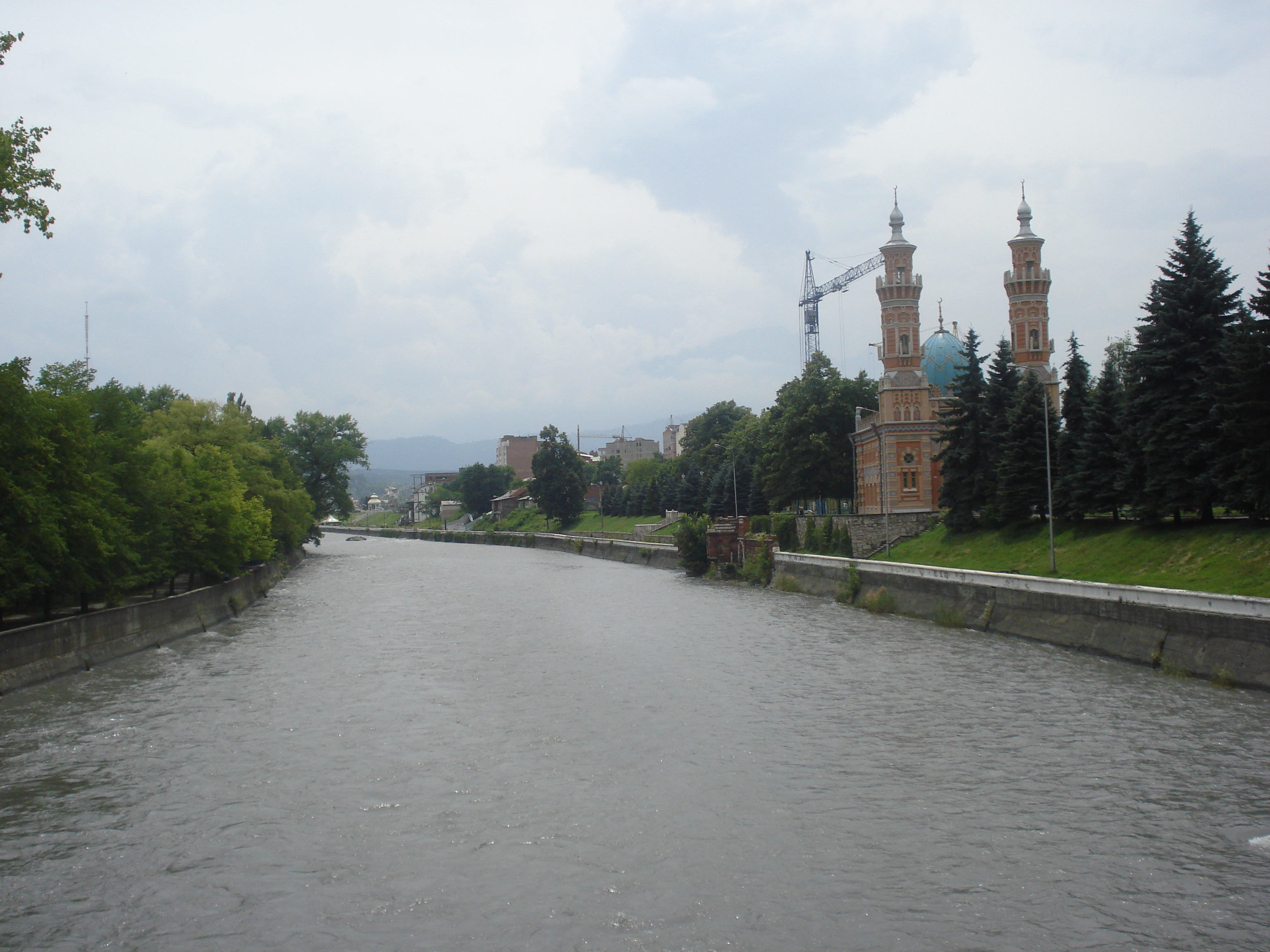 Vladikavkaz. Sunni Mosque on the bank The Terek river